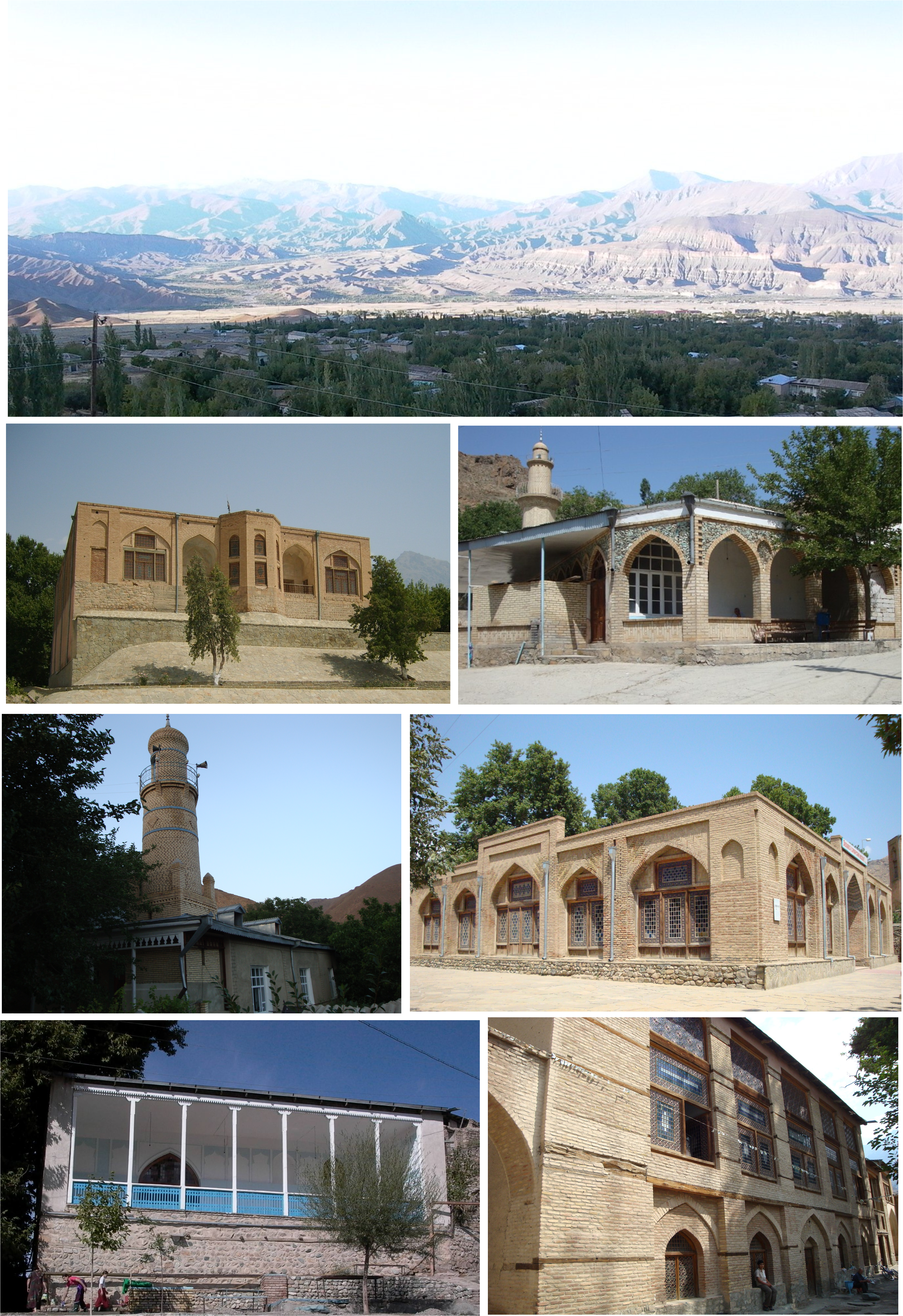 Collage from the pictures of Ordubad cityI File:Dırnıs Məscidi 02.JPG, File:Ordubad şəhər Cümə məscidi.JPG, File:Sərşəhər məscidi. Ordubad şəhəri 02.JPG, File:Ordubadda Qeysəriyyə abidəsi 03.JPG, File:Hacı Hüseynqulu məscidi.jpg, File:Nakhichevan08.jpg, File:Nakhichevan05.jpg.